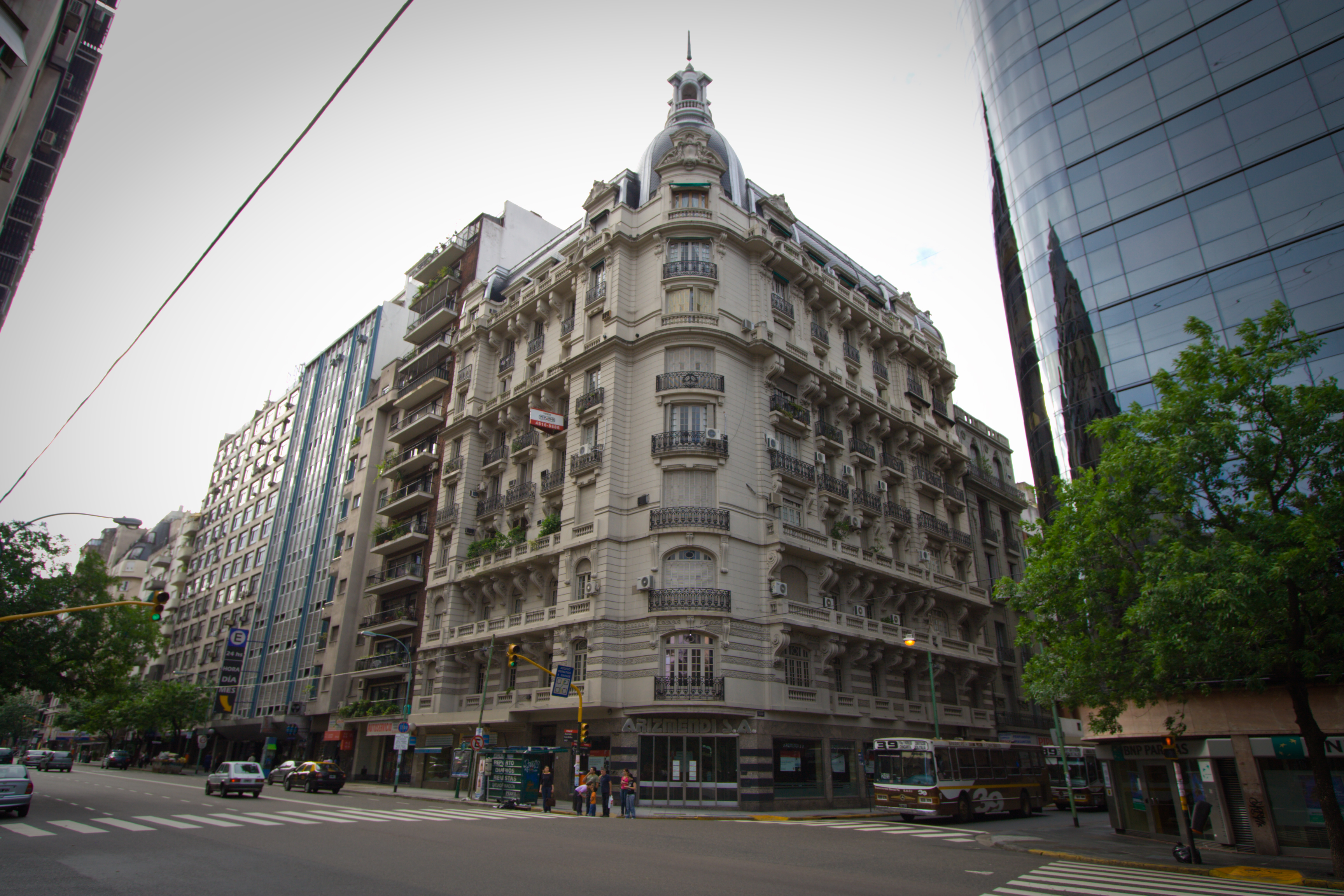 Córdoba Avenue at Talcahuano Street, downtown Buenos Aires. The camera faces the Emilio Rodrigué Building (on Córdoba 1301), designed by Jacques Dunant and Gastón Mallet and completed in 1914.